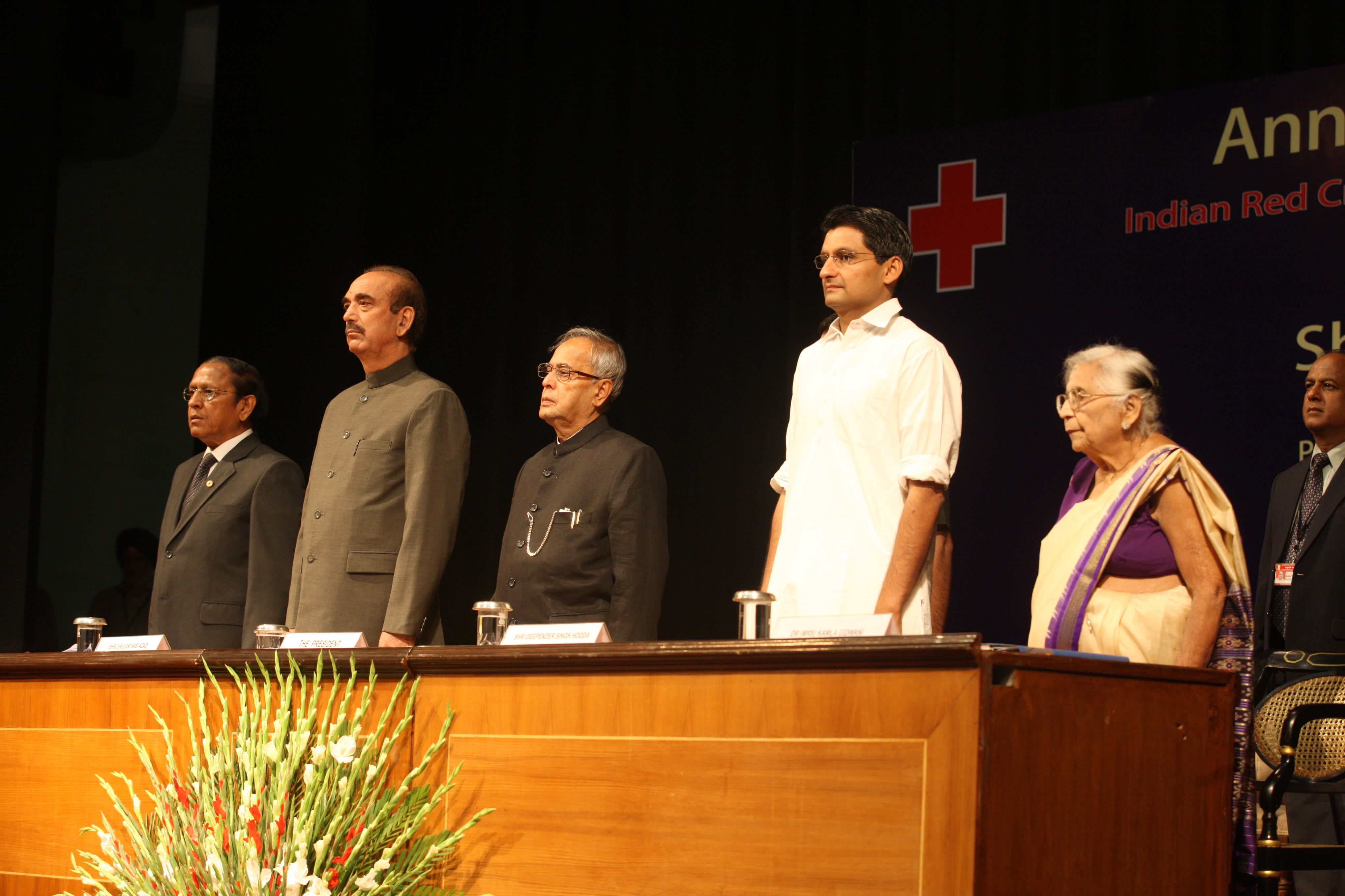 Deepender Singh Hooda at en event organized by Indian Red Cross Society